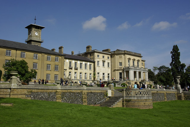 Bentley Priory Bentley Priory was occupied by the RAF from 1926 until the spring of 2008, perhaps the most important time in its history was during World War Two when it was the headquarters of Fighter Command. The site has been sold to a developer and plans to convert some of the building to luxury apartments and build new houses have been approved. The Bentley Priory Battle of Britain Trust has secured part of the building to be used as a museum and memorial dedicated to those who served in the RAF. In September 2008 the site was open to the public for the first time part of the Civic Trust Heritage Open Days, this photograph shows the south face of the main buildings on one of those days. Much more information is available on the Bentley Priory Battle of Britain Trust web site at